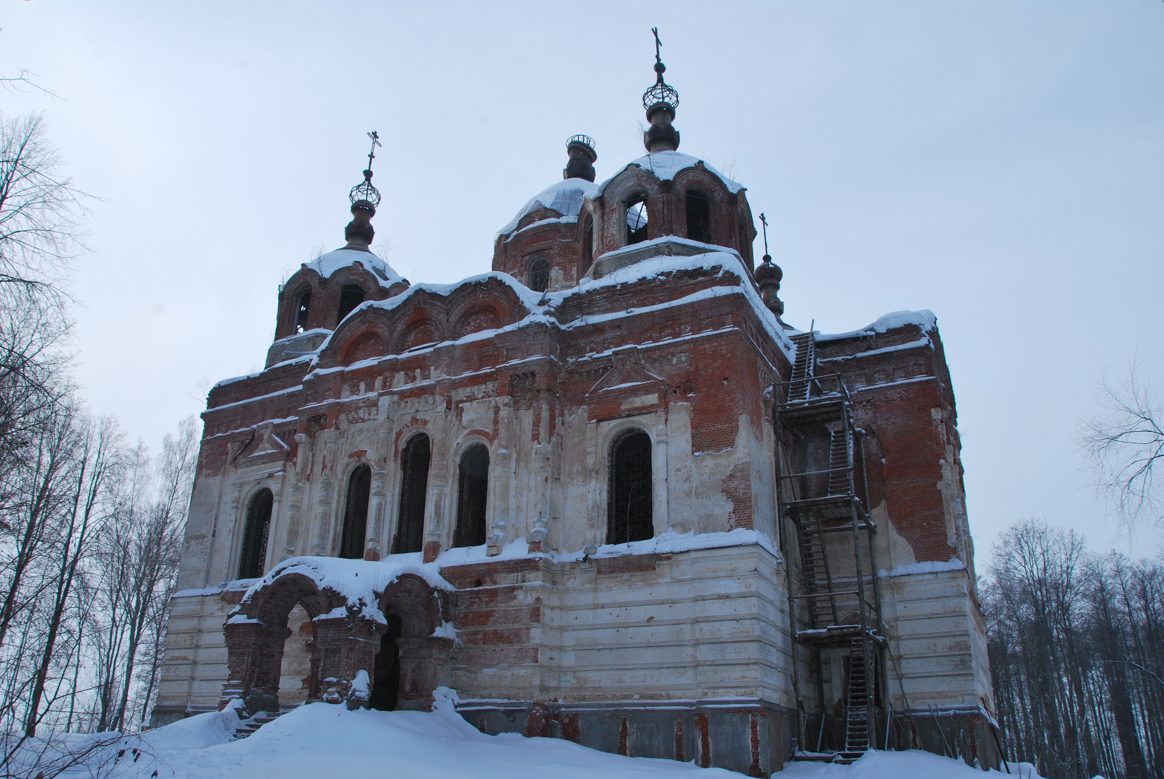 Uspenskiy cathedral of Rdeyskiy monastery